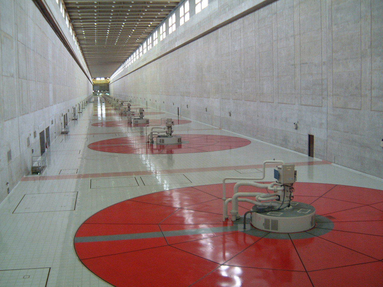 Turbine chamber at Yaciretá dam, Argentina